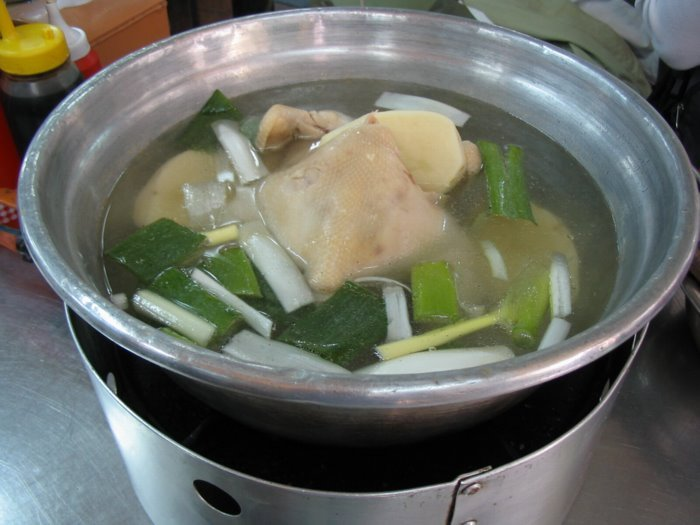 Dak hanmari (chicken stew) at Dongdaemun Market, Seou, South Korea